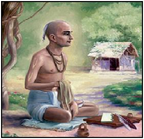 Srila Sanatana Goswami Transcendental